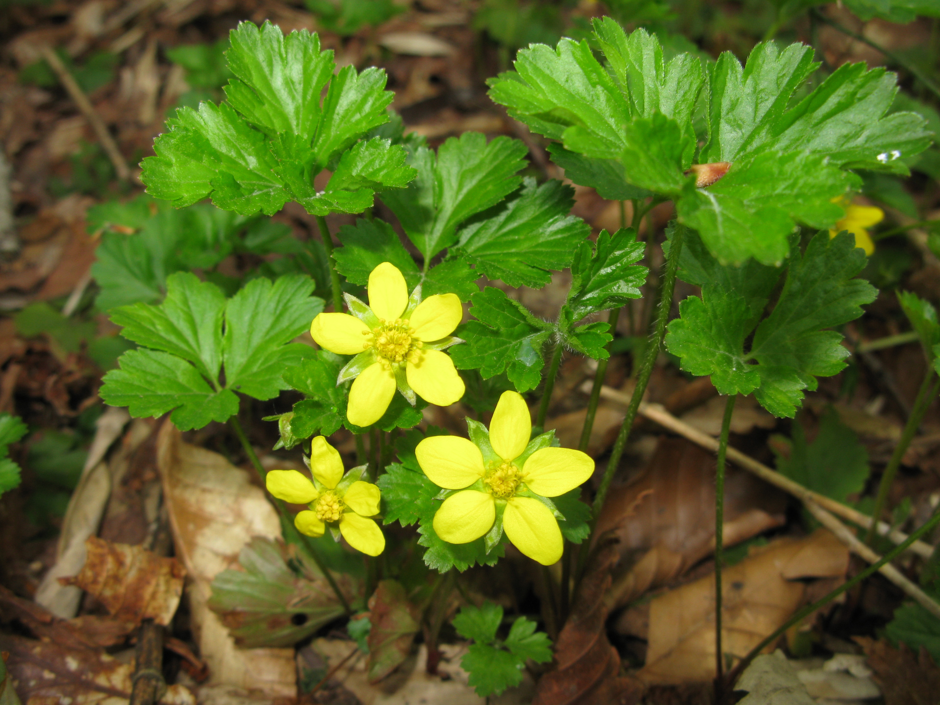 Geum ternatum, Aizu area, Fukushima pref., Japan